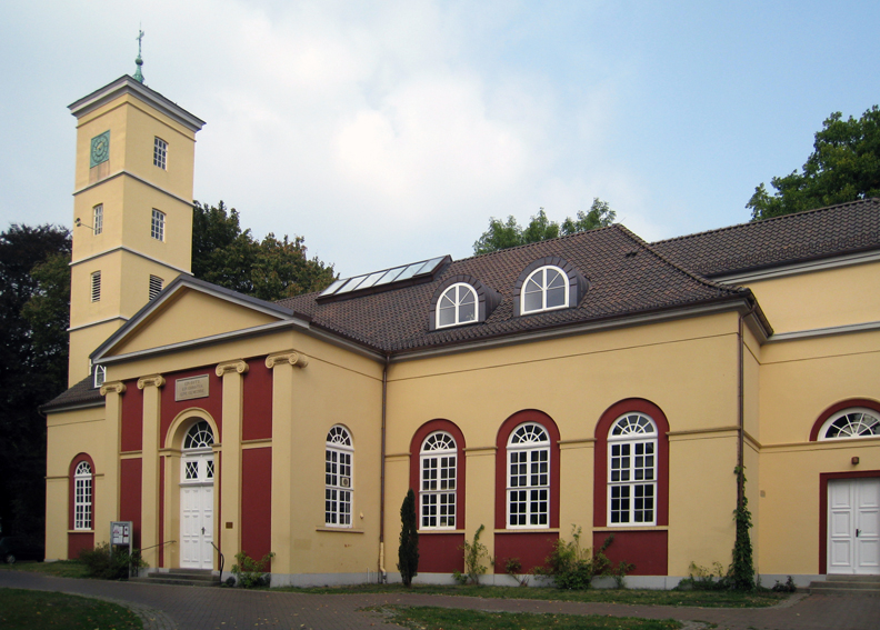 The Stadtkirche (“City church”) in Bremen-Vegesack, Germany. Built 1819–1819 by Friedrich Wendt and Gerhard Tölcken and reformed by Jacob Ephraim Polzin in 1832/1833.